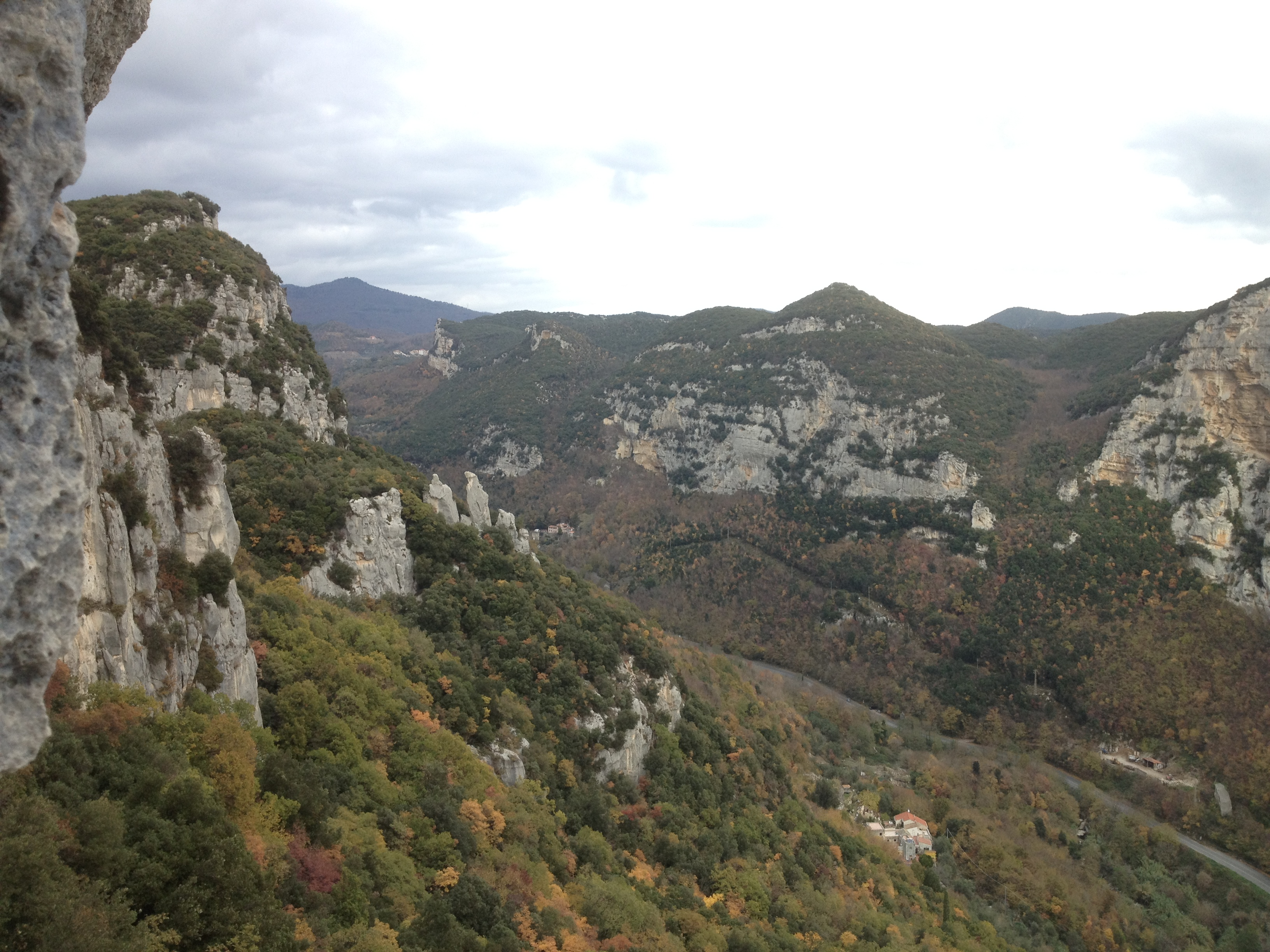 The wonderful view of one of the main climbing spot in Italy, Finale Ligure. Crags from left to right: Bric Scimarco, I Frati, Superpancia